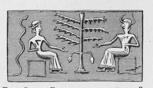 Drawing of the so-called Adam and Eve cylinder seal impression, a 22nd century BCE post-Akkadian cylinder seal, once though to depict, from left to right: the Eden serpent, Eve, the tree of Knowledge, and Adam. The modern interpretation rather suggests that to be a worshiping scene with a god (horned, right), a worshiper (left) and a symbolic date palm and snake. The original seal, made from greenstone, is now in the British Museum.